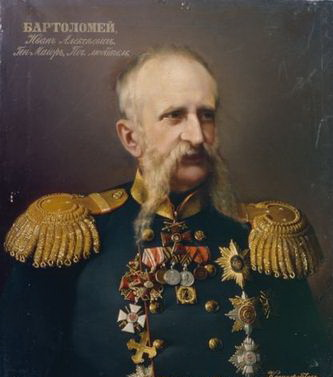 Portrait of Bartolomey, Ivan Alekseyevich (1813–1870).